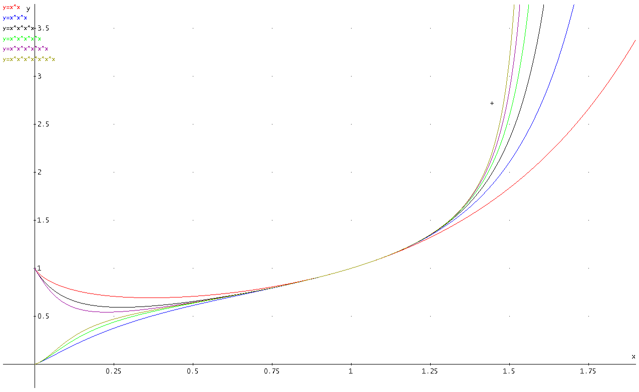 Graph plotting x↑↑2, x↑↑3, x↑↑4, x↑↑5, x↑↑6 and x↑↑7 for positive values of x.